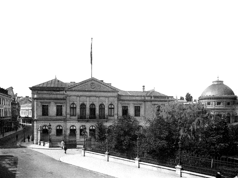 photograph of Bucharest Royal Palace